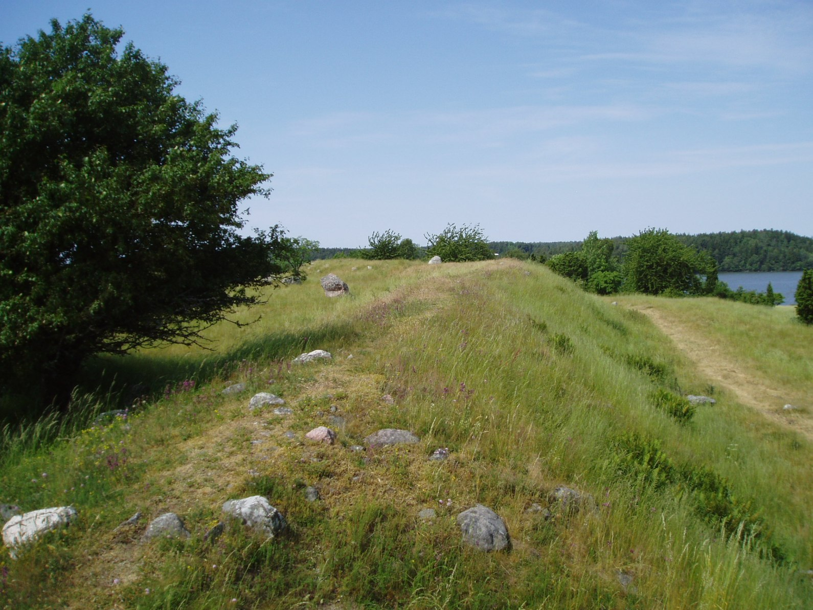 Birka, Sweden, part of Middle Ages castle